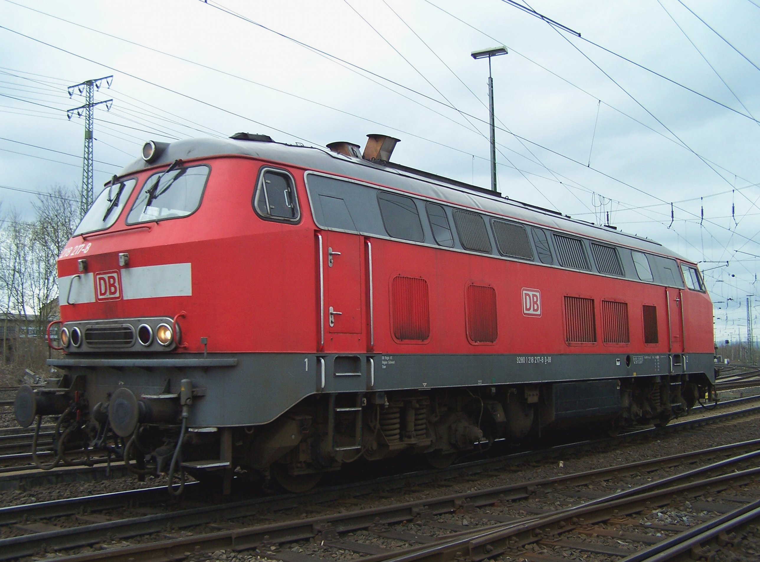 Diesel locomotive 218 217 during a locomotive parade at the DB Museum in Koblenz-Lützel, a local branch of the Transport Museum in Nuremberg, April 2010